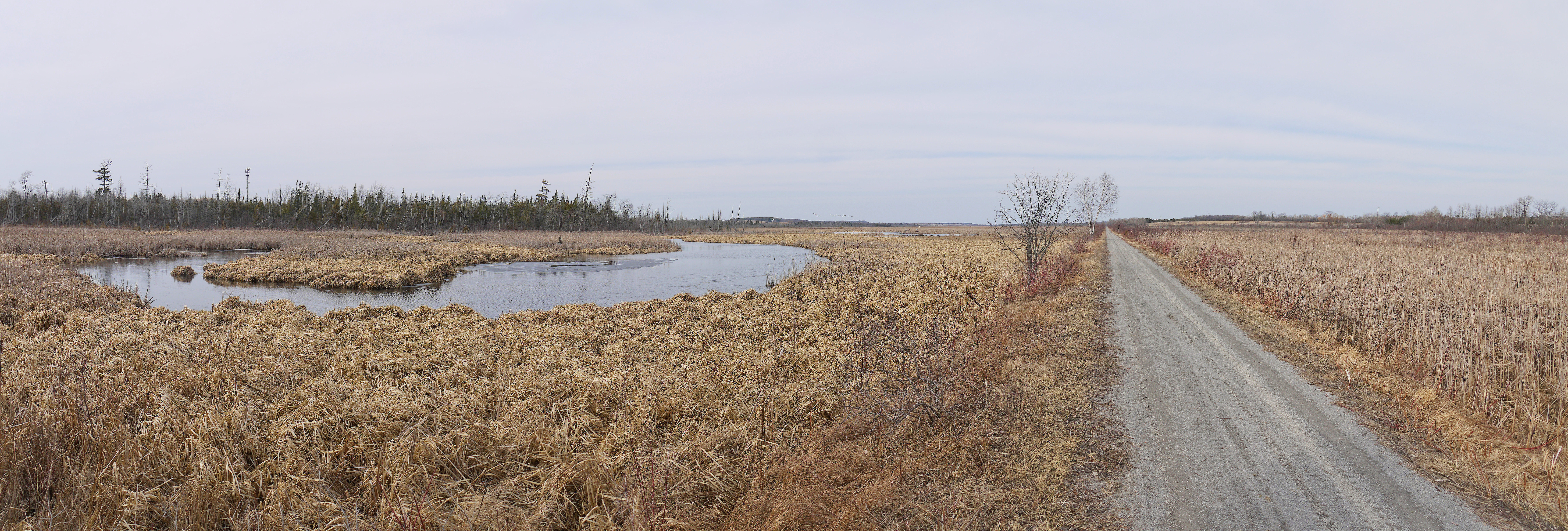 Beaver River along the Trans Canada Trail.